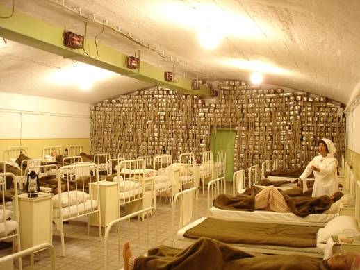 Hospital in the Rock, Budapest, ward room